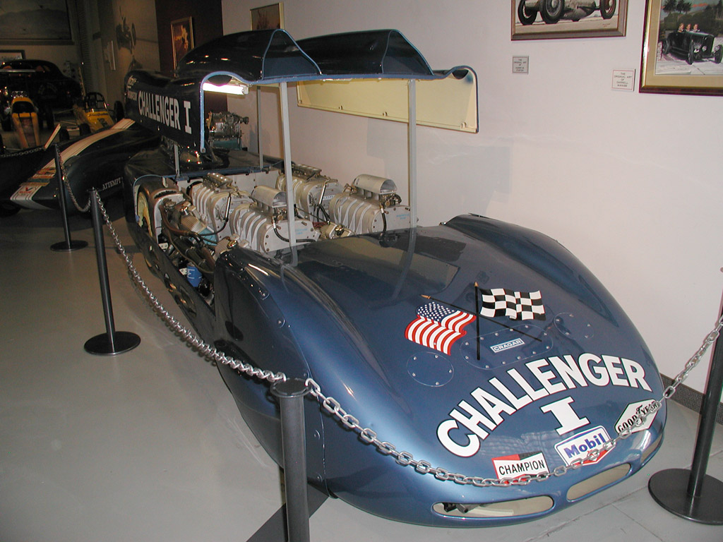 Mickey Thompson Challenger I land speed record vehicle at the NHRA museum